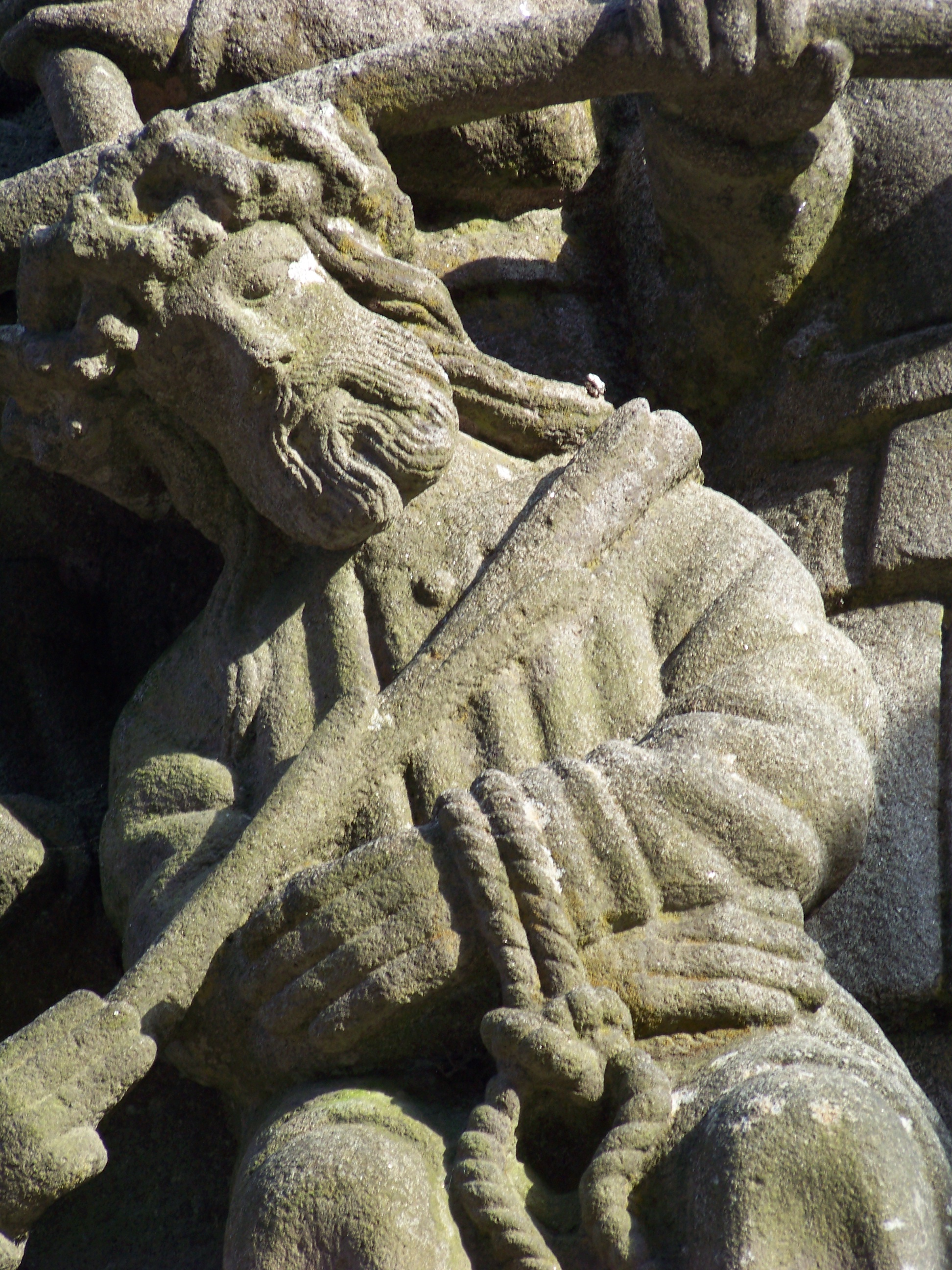 The Last Judgement, The calvary, Plougastell Daoulaz, Finistere, Brittany .